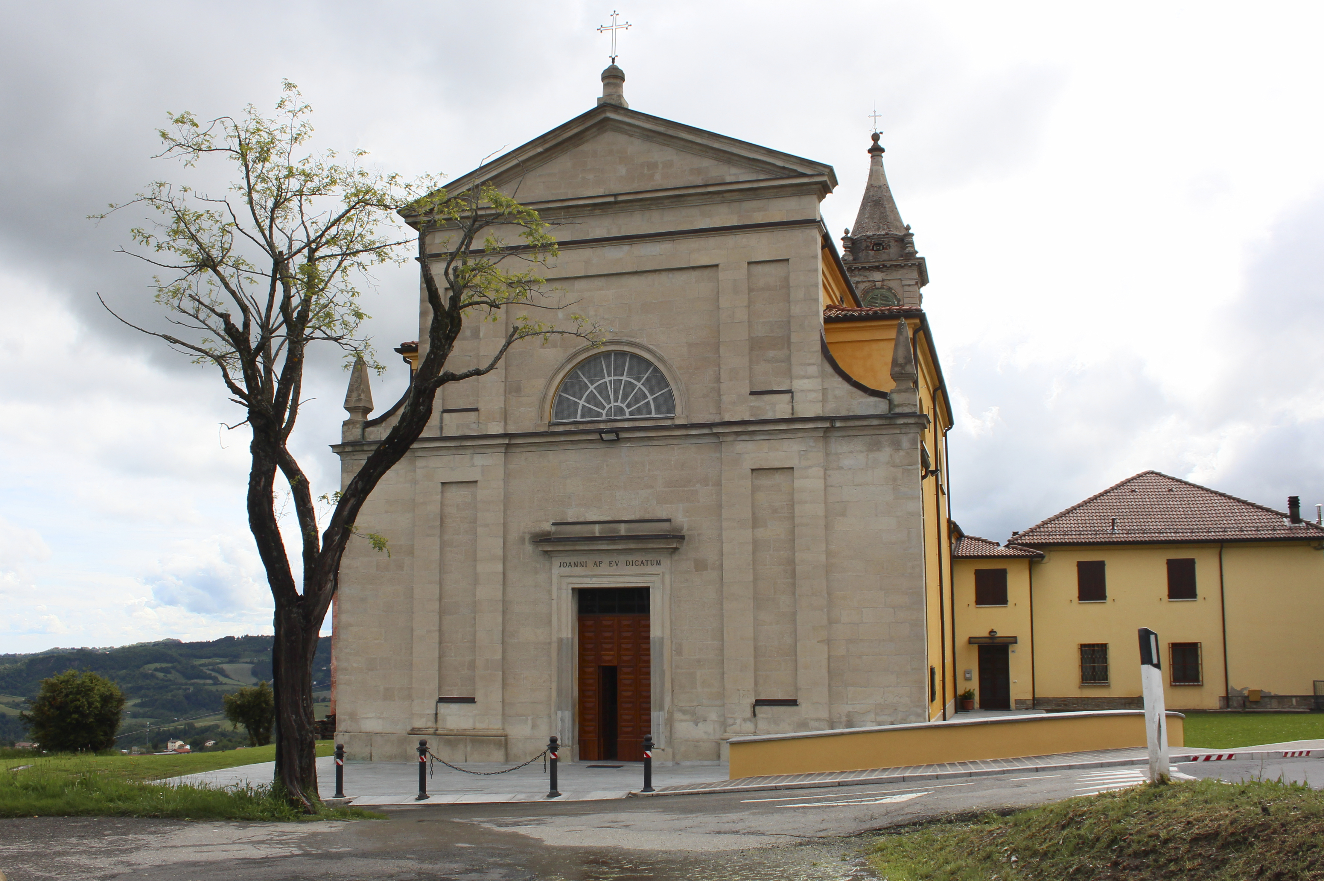 Church San Giovanni Evangelista, Monzuno, metropolitan city of Bologna, Emilia-Romagna, Italy